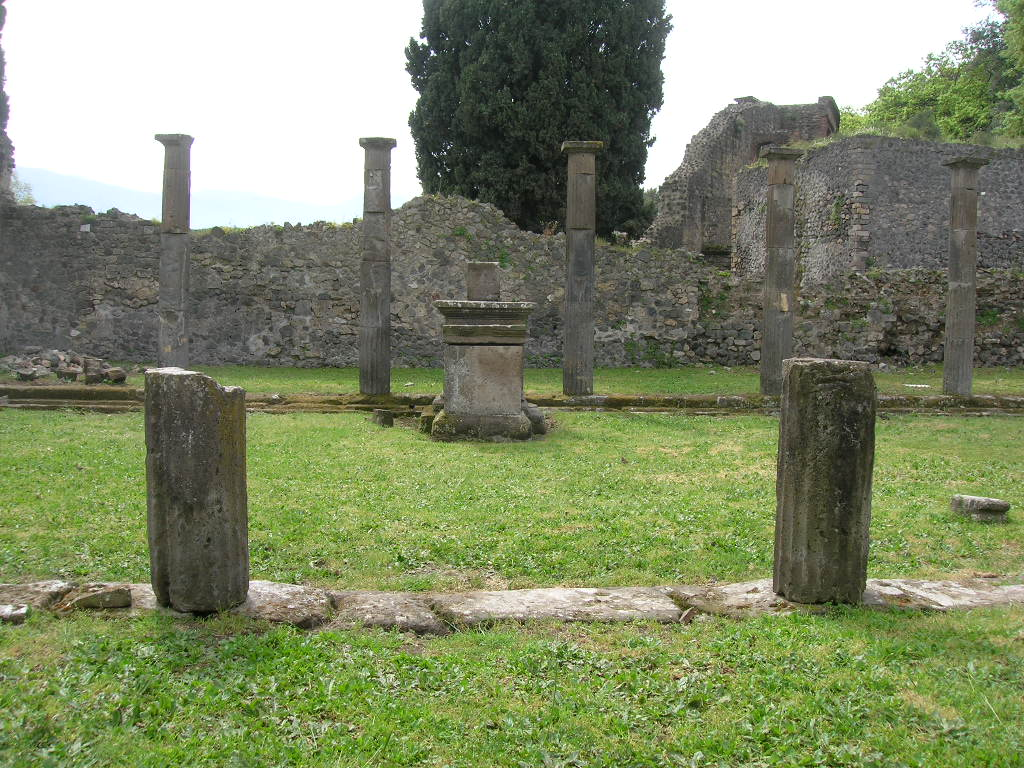 Samnytic Gymnasium in Pompeii, Italy.